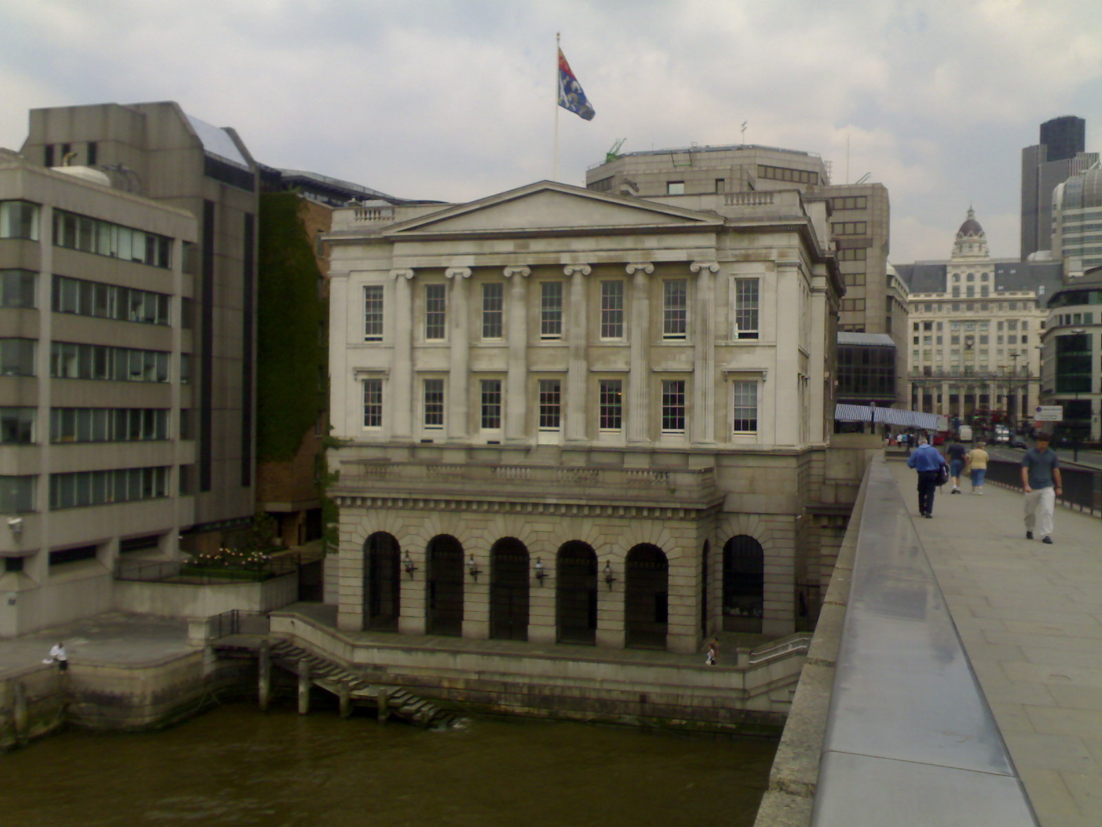 Worshipful Company of Fishmongers, north banks near London Bridge, UK